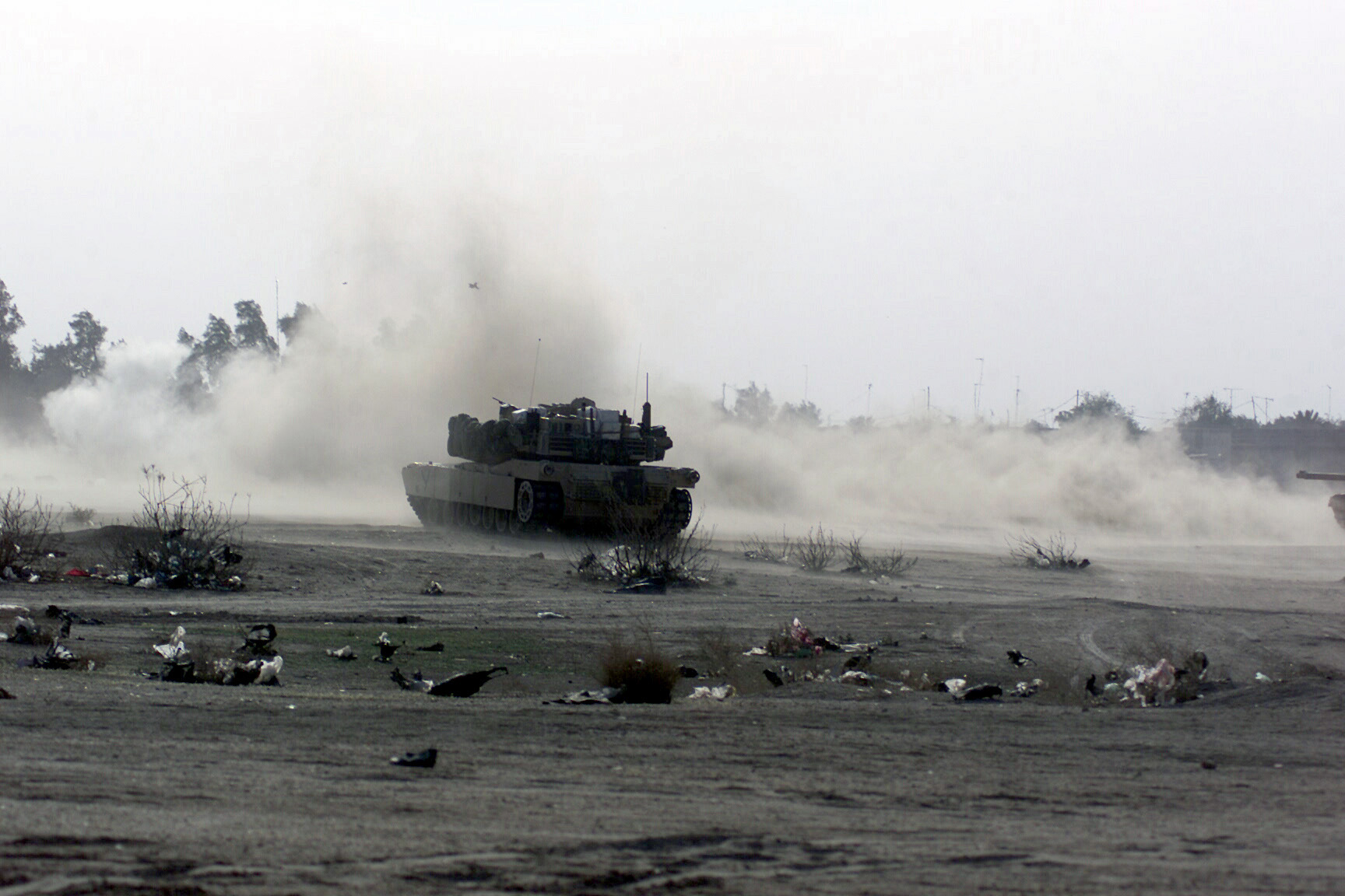 A Marine Corps (USMC) M1A1 Abrams Main Battle Tank (MBT) fires its 120mm main gun during fighting between Iraqi and Coalition forces near Umm Qasr, Iraq, during Operation IRAQI FREEDOM.